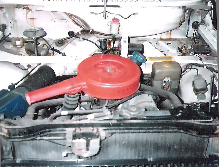 Subaru FF-1 1100cc engine